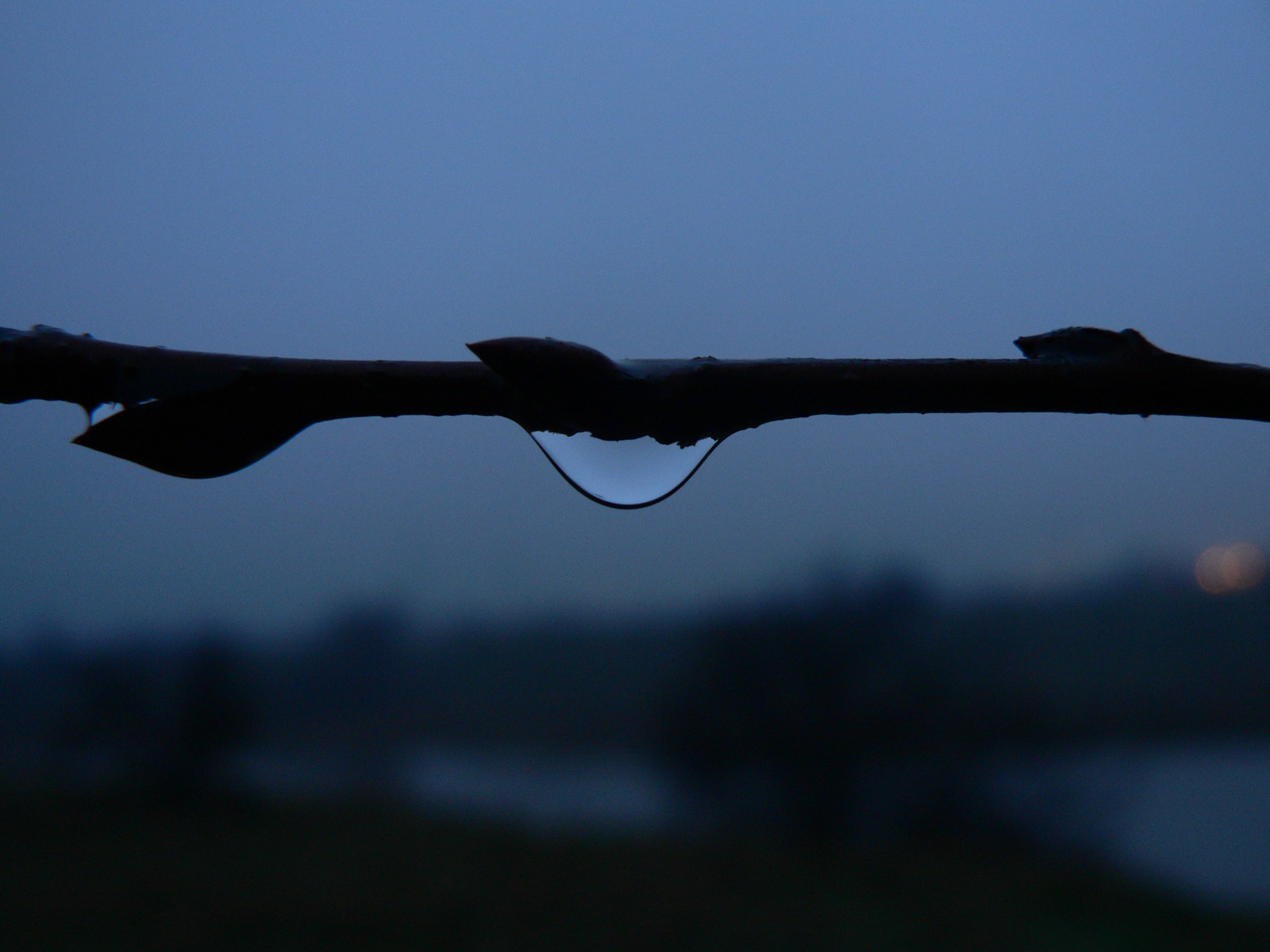 Water drop